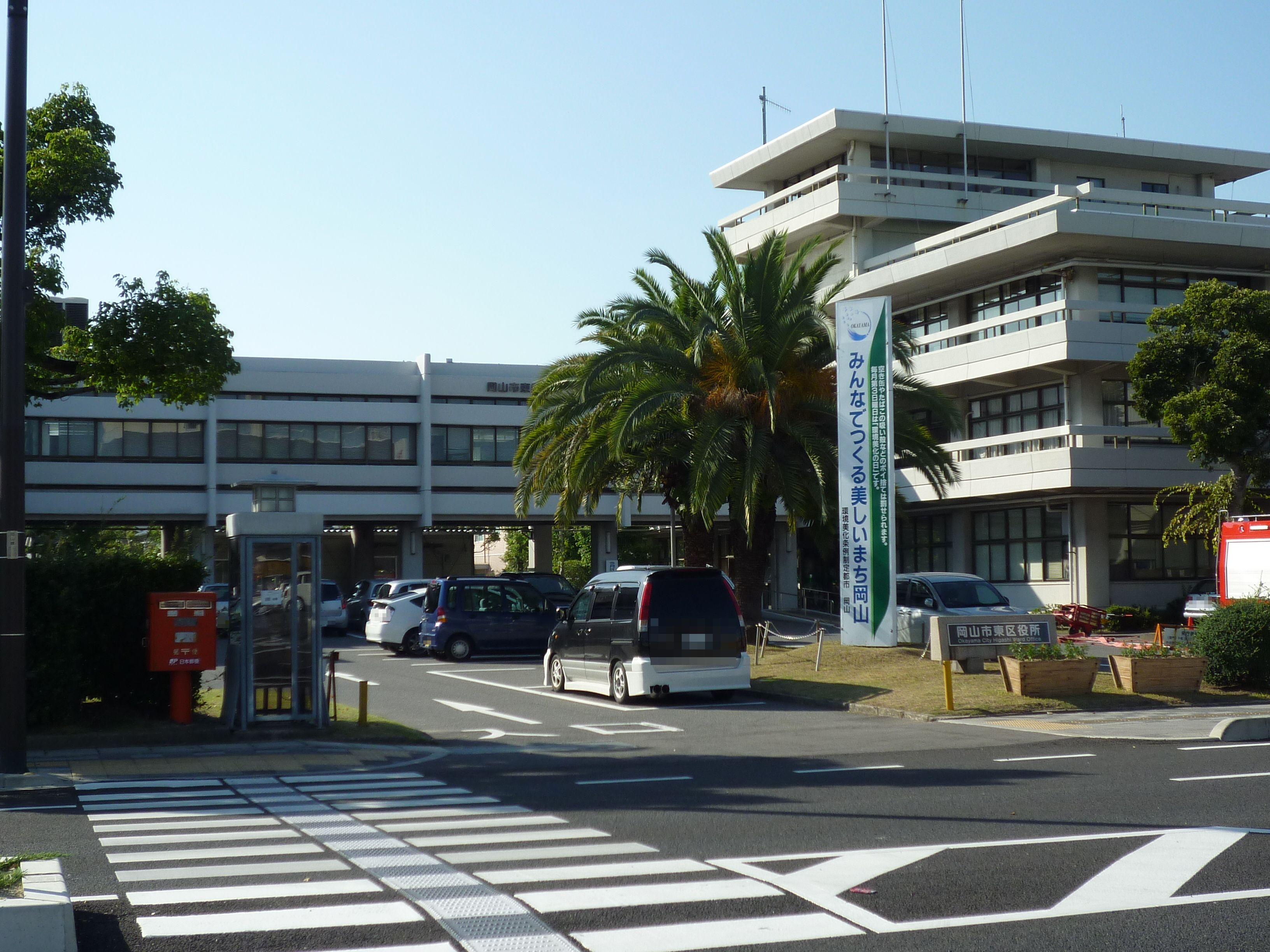 Former Okayama City Higashi ward office (Higashi-ku,Okayama City,Okayama Pref,Japan)